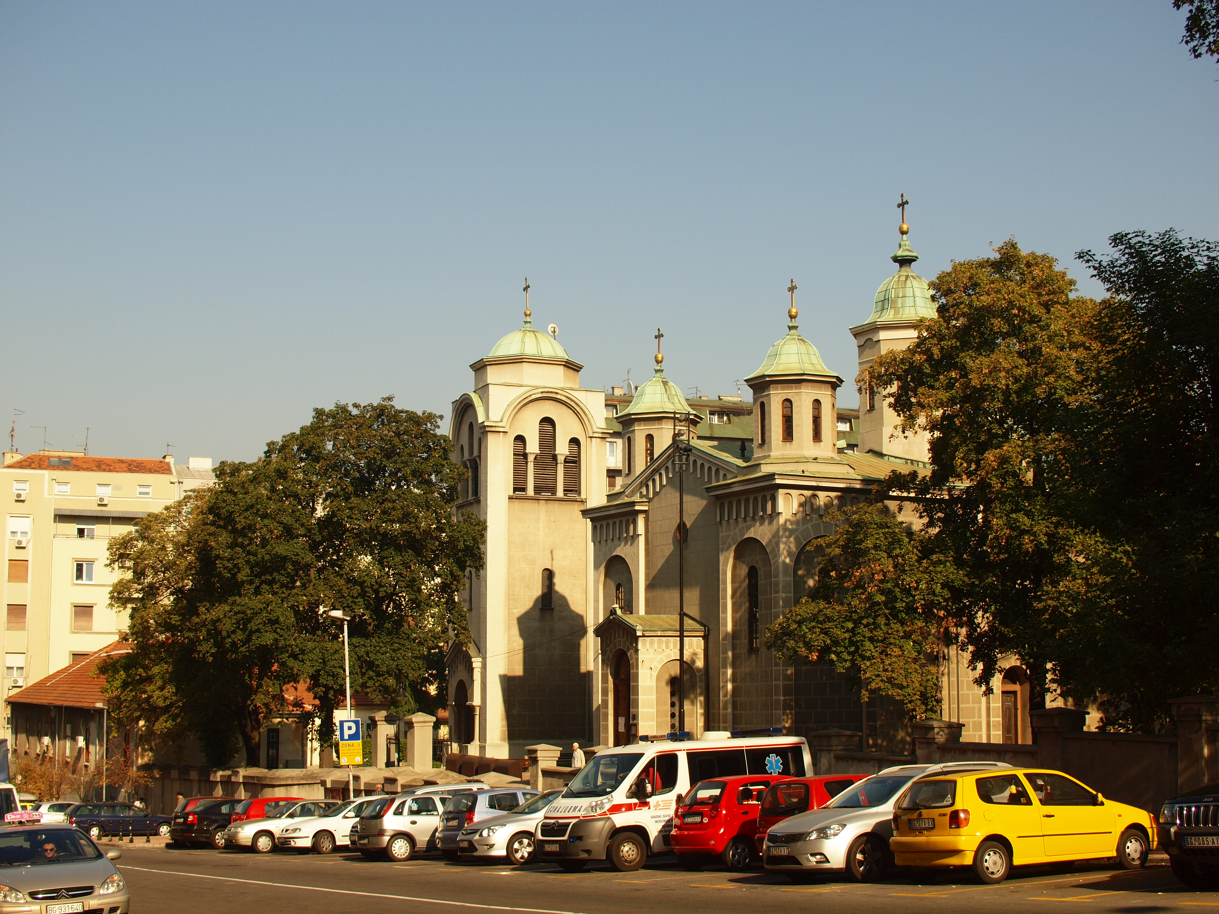 crkva vavedenja belgrade